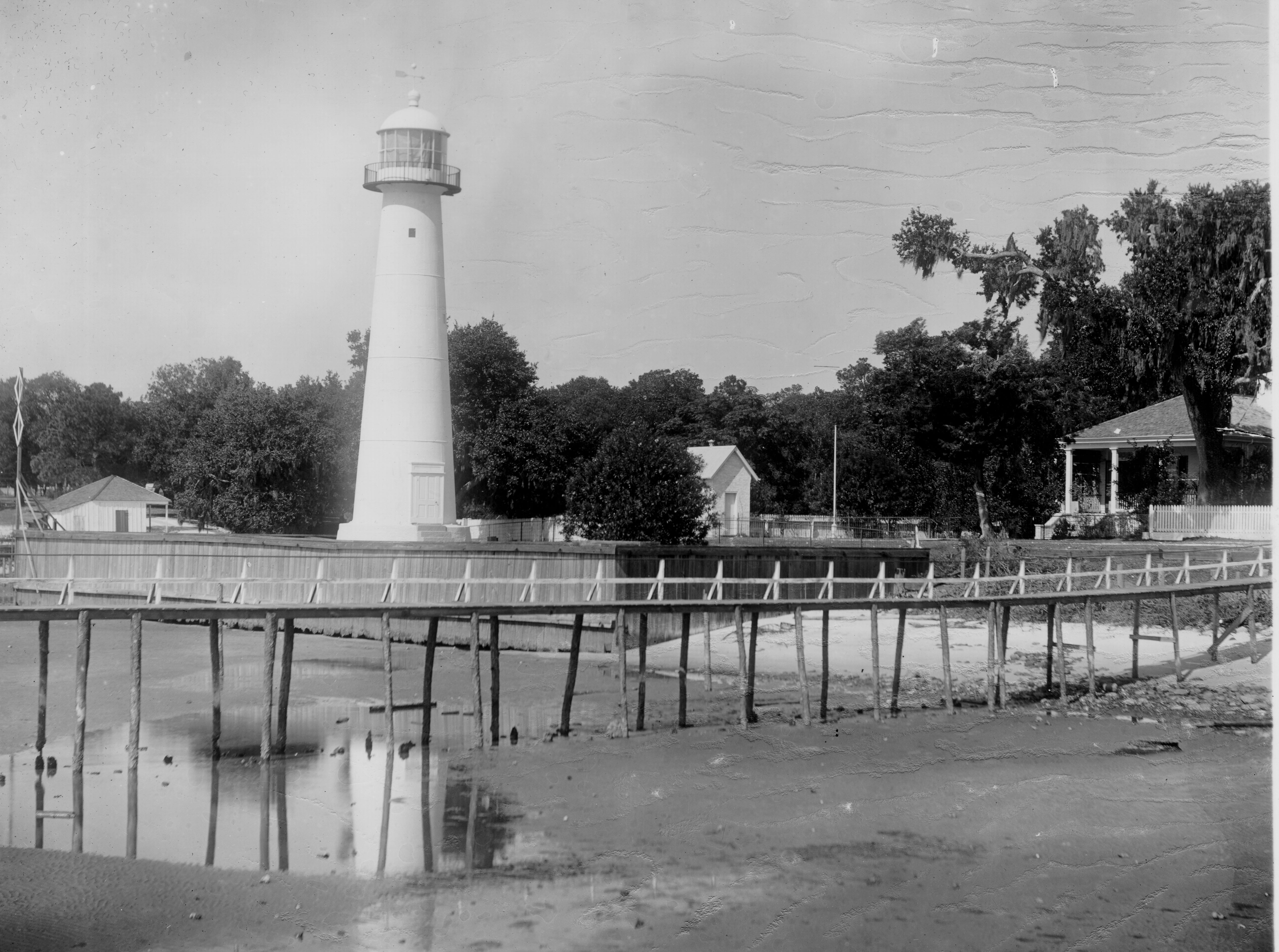 Coast Guard archive photo of Biloxi Light. Original caption: "Camera Station No. 1."; photo dated 26 October 1892; Photo No. 66; photographer unknown.